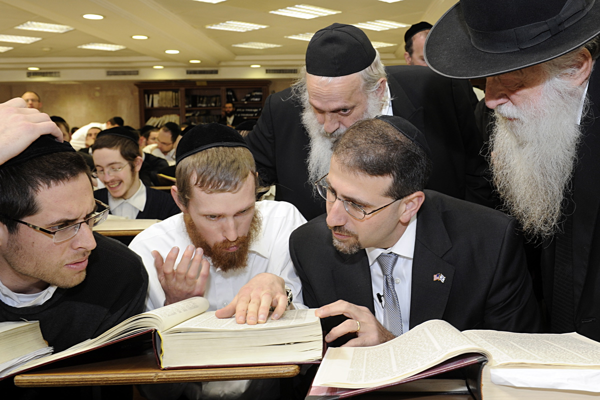 On January 10, 2012, the Ambassador visited the Mir Yeshiva in Jerusalem, one of the largest yeshivas in the world with over 6,000 students. During the tour of the yeshiva, situated in Mea Shearim, the Ambassador was accompanied by Rabbi Aharon Chodosh, Rabbi Nachman Levovitz, Rabbi Binyamin Carlebach and Rabbi Aaron David Davis. During the visit, the Ambassador was shown four study halls in three different buildings, each one with many hundreds of students studying together. The Ambassador was introduced to the Rosh Yeshiva, Rabbi Eliezer Yehuda Finkel, who acceded to this position upon the death of his father in November, Rabbi Nosson Tzvi Finkel. The Ambassador then visited The Bedomaich Chayi Cord Blood Bank which was established in Jerusalem in 2006 as a public cord-blood bank. Following a small reception and presentation ceremony the Ambassador “cut the ribbon” of a newly established laboratory and was given a short explanation of its function. At the same time, the Ambassador visited the Dor Yeshorim organization, an organization which provides genetic testing to prevent the occurrence of genetic diseases within the Jewish community worldwide. To date, the Dor Yeshorim program operates in dozens of countries around the world, having tested over 300,000 patients for the common recessive diseases. Photo Credit: Matty Stern U.S. Embassy Tel Aviv Jerusalem